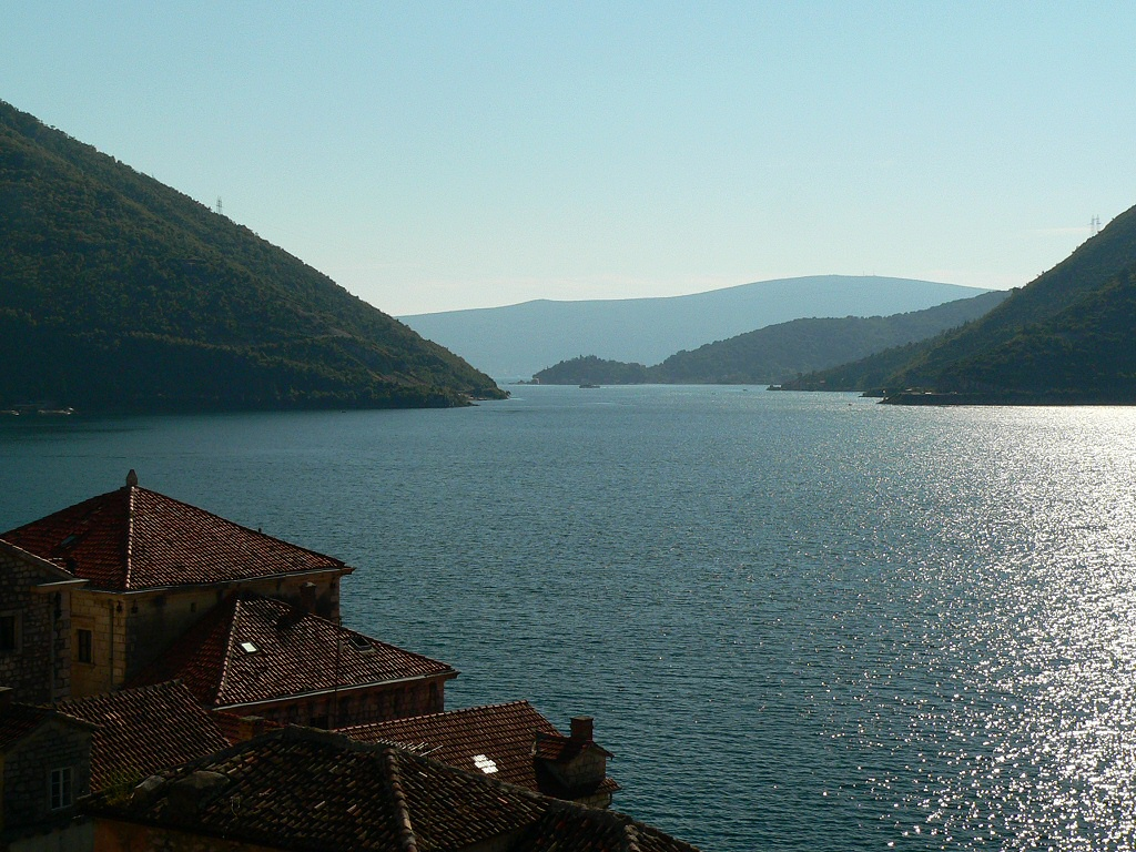 a view on Boka Kotorska bay from Perast, Montenegro